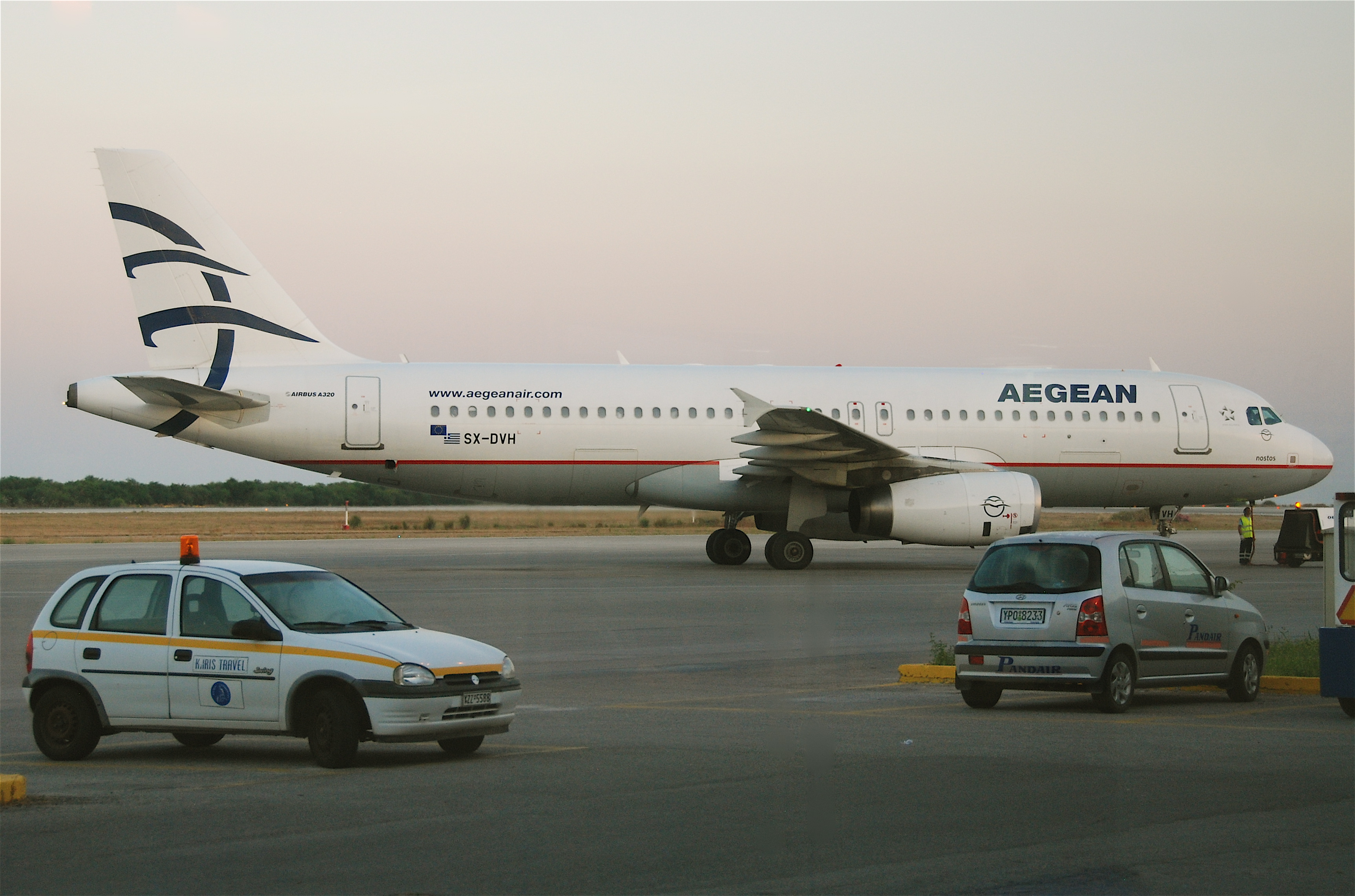 Aegean Airlines Airbus A320-232; SX-DVH@KGS;12.06.2011/600aa